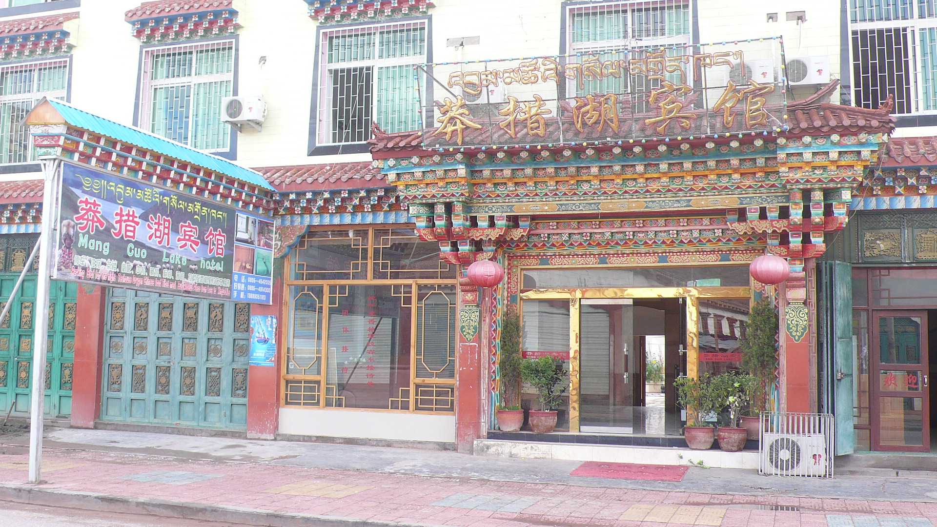 Bumcoi Hotel (or Bumcoi-Hotel, 100000 Lakes Hotel), Chamdo, Tibet